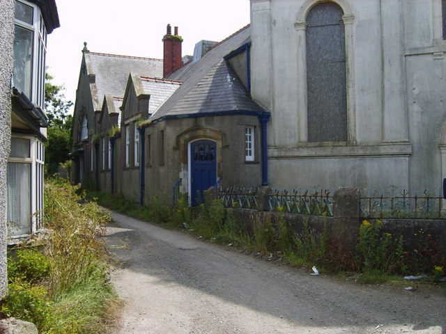 The vestry of the former Capel Carmel, Amlwch Port